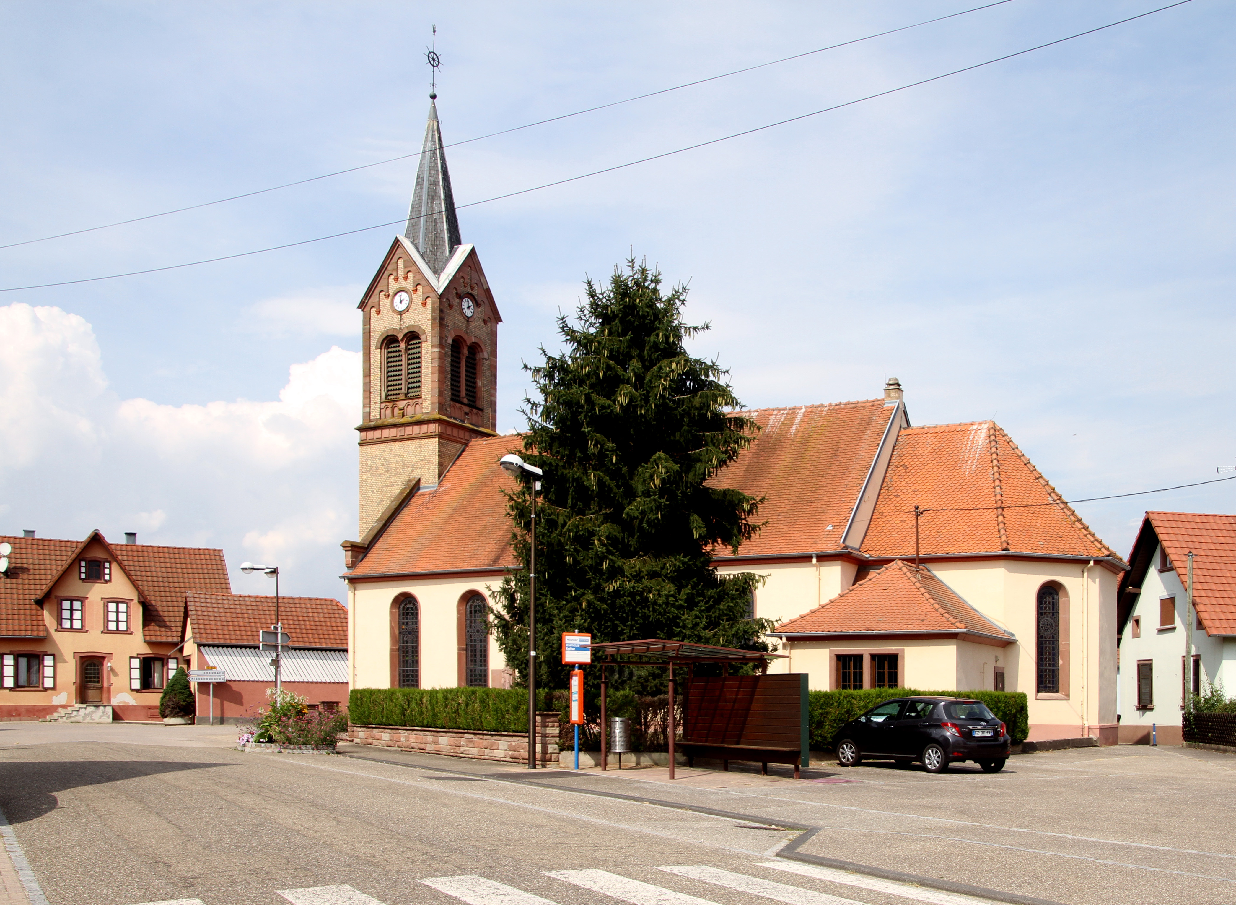 Church of Saint Martin in Schaffhouse-près-Seltz.